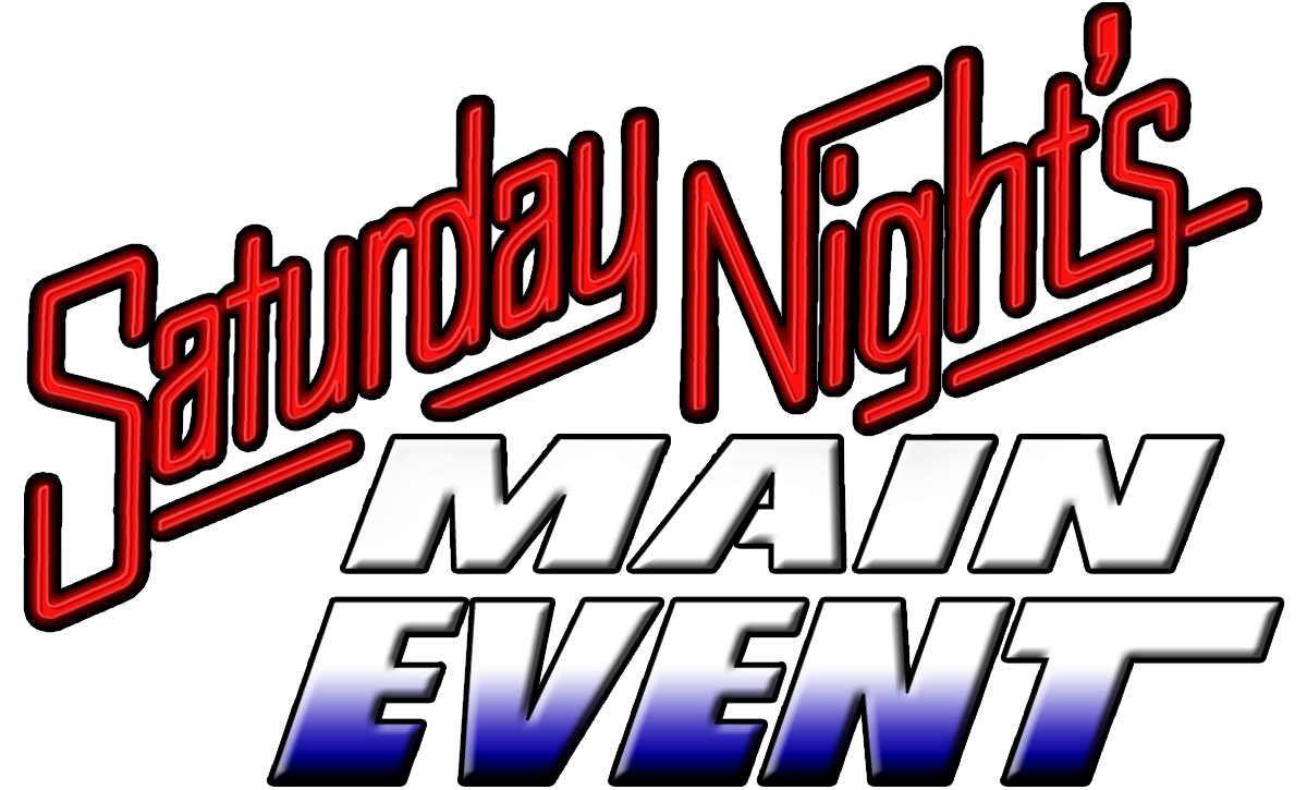 The official Logo of WWE Saturday Night's Main Event